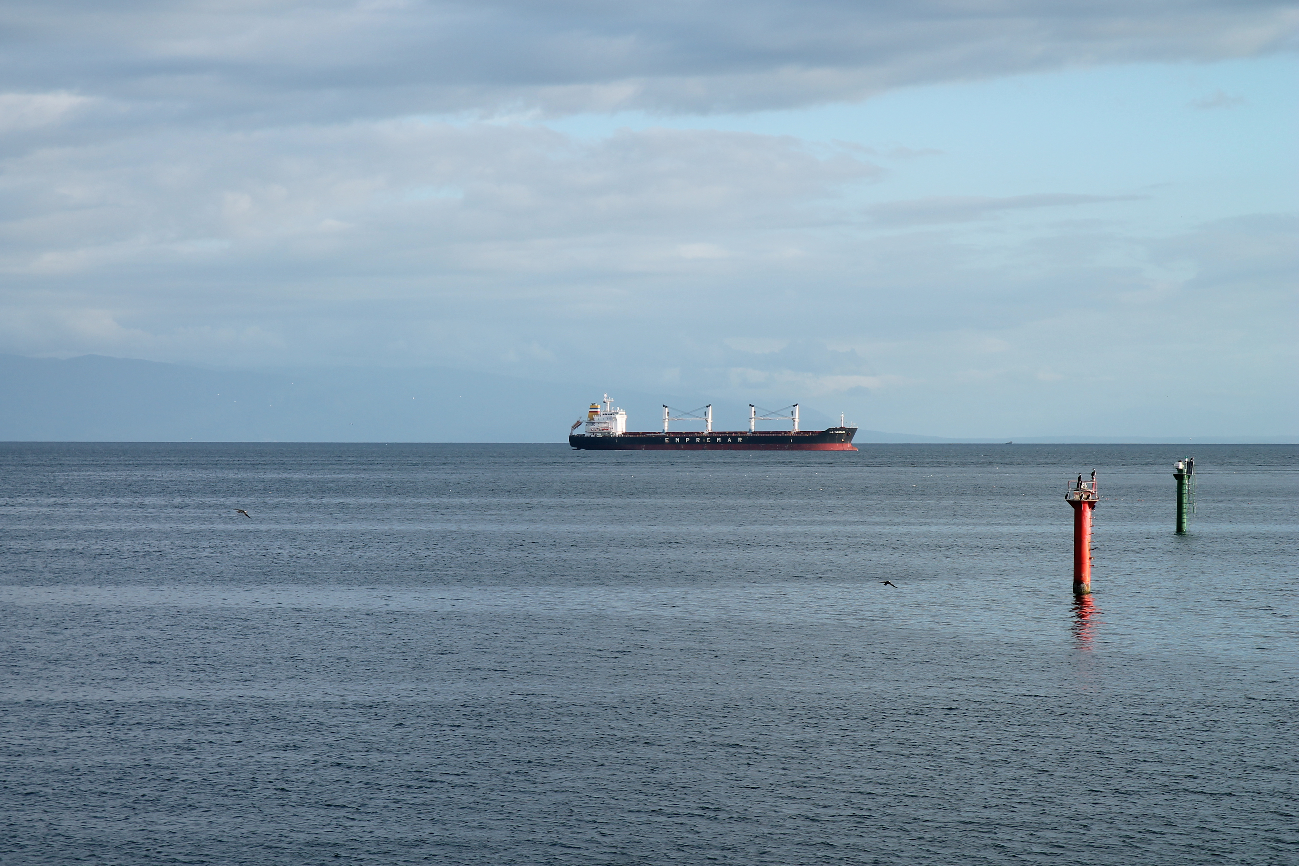 Puerto Montt